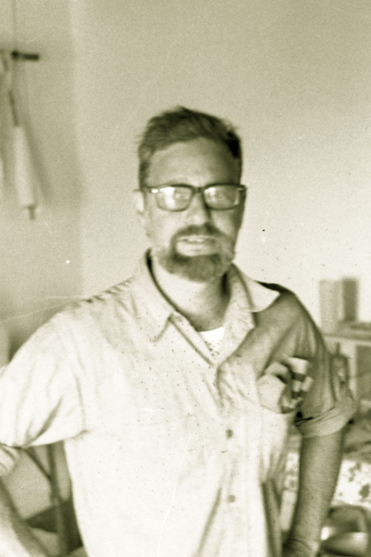 Photo of Nedd Willard taken by George Garrigues on June 29, 1969, at Willard's home in Thorens-Glières, France.